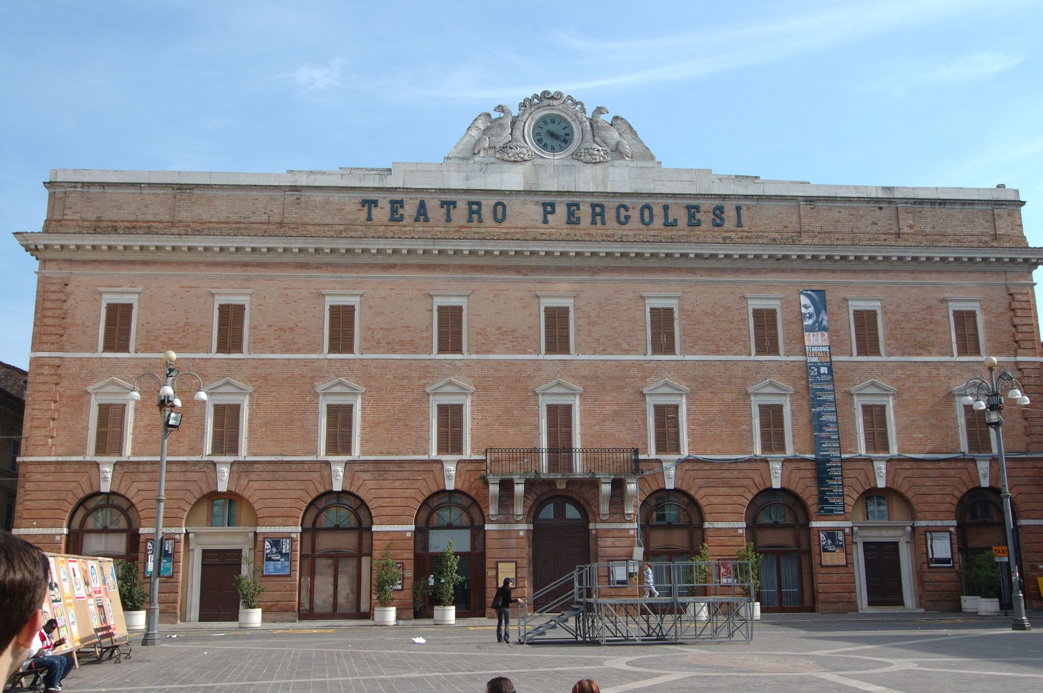 Jesi, Marche, Italia